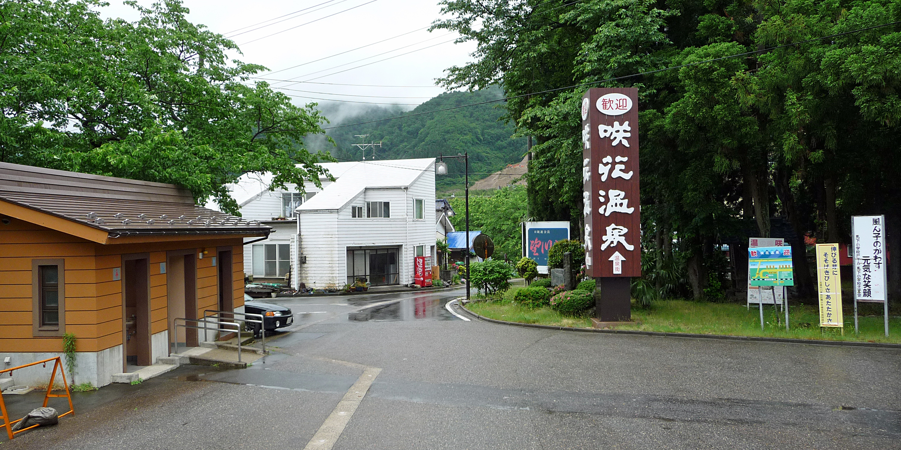 Sakihana Station plaza.